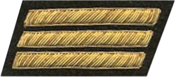 United States Civil War|Confederate States of America Insignia